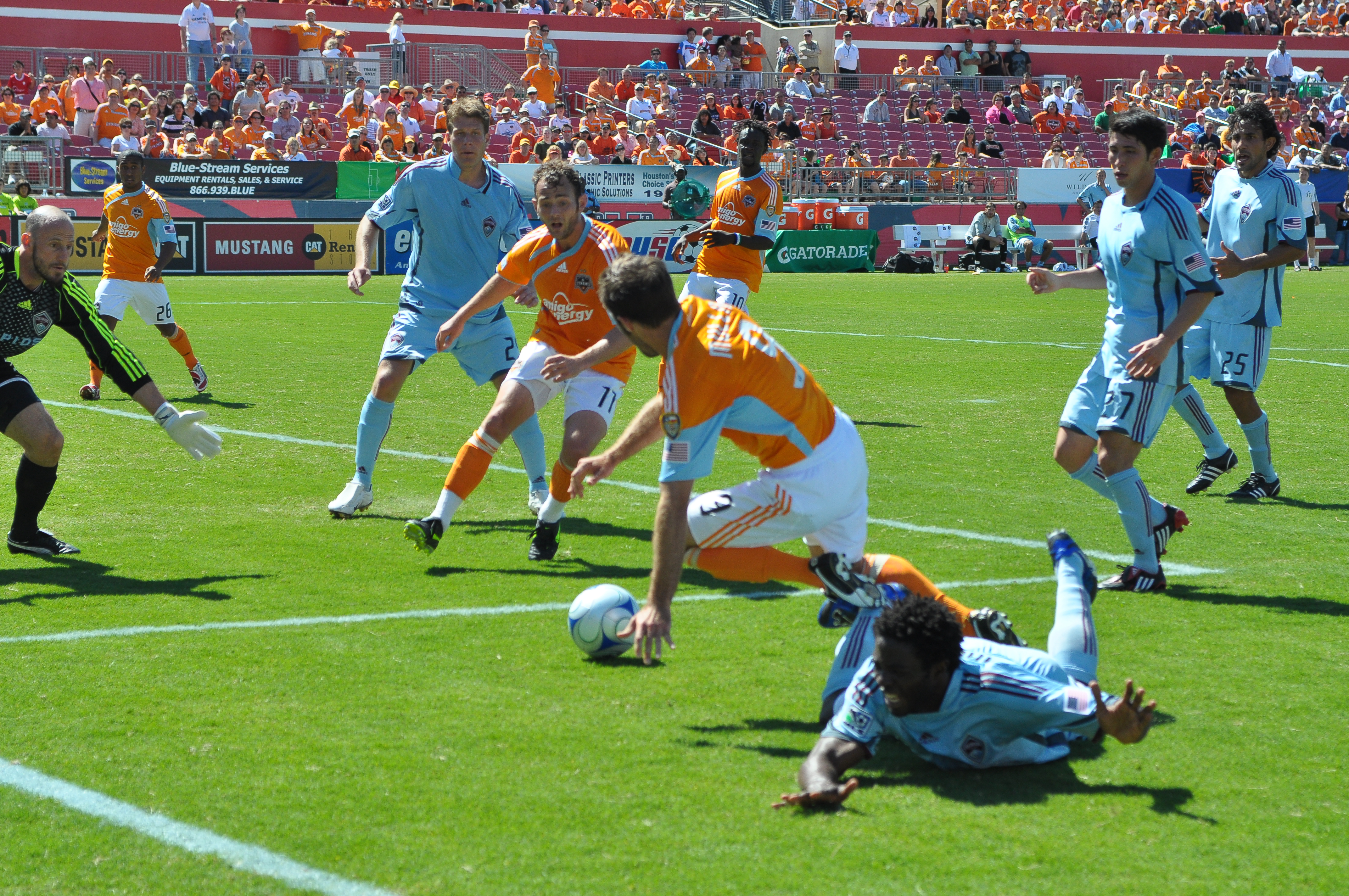 An action shot from the April 19 2009 Major League Soccer game between Houston Dynamo and the Colorado Rapids.